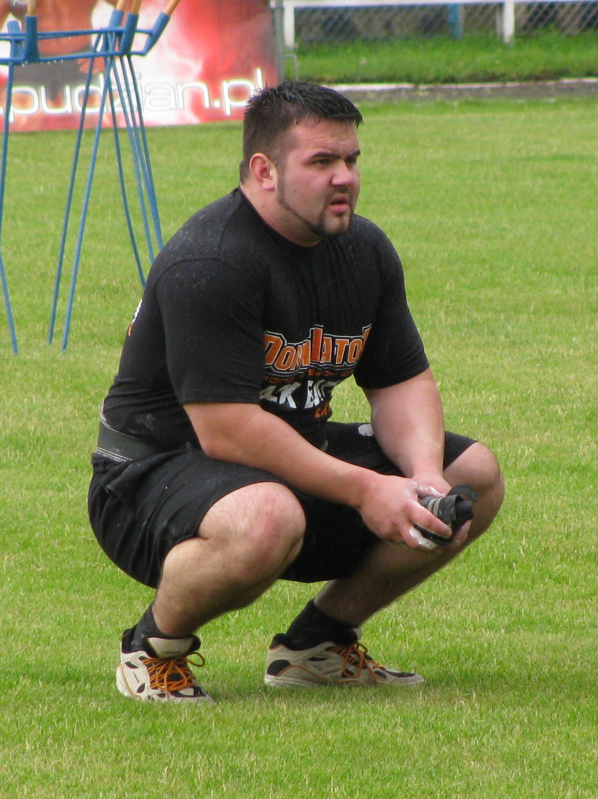 Michael Votter - a strength athlete from Austria